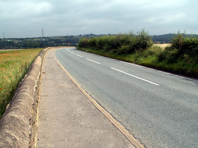 The A635 to Barnsley From Cawthorne.